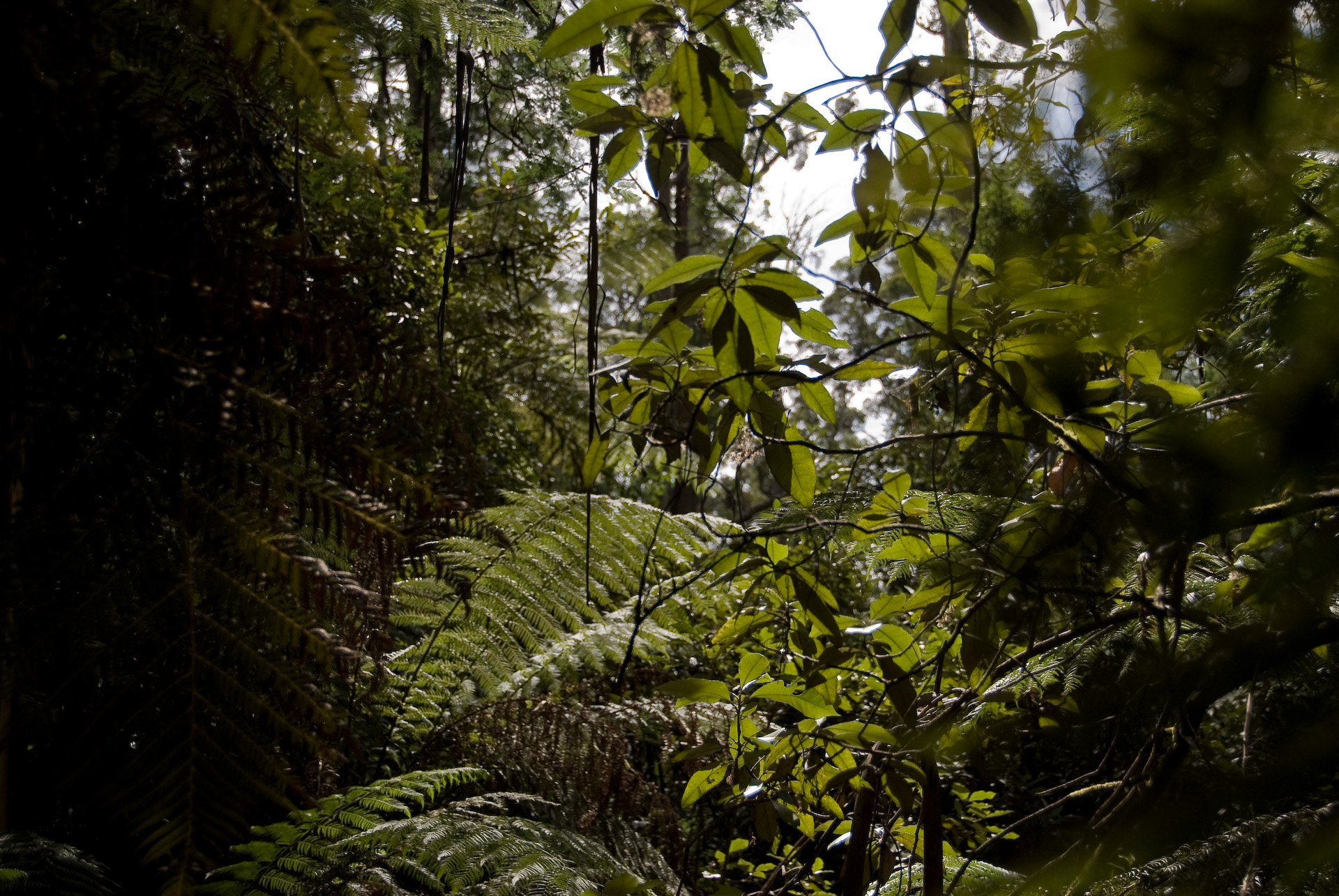 Brown Mountain, Victoria, Australia. Photographs from Brown Mountain 2008-03-23: These photos were taken along the Goongerah Old Growth Forest Walk [1] between Legges Road and the creek to its east[2]. The walk continues from the creek to Errinurndra Road. However, no photos in this set are from that section, which has now been cleared. The area is also known as "Coupe 840-502-0020" and has been logged and reduced to smouldering ashes, destroying one half of the walking track despite the Victorian Labor Government's 2006 promise that "...a Labor Government will immediately protect remaining significant stands of old-growth forest currently available for timber harvesting...". The Labour government also made an election promise to "Invest $1.3 million to create ... the Great Short Walks of East Gippsland", which was to include the "Old Growth Walk - Goongerah". Goongerah is the nearest settlement to Brown Mountain. The clearing of the 600+ year old trees and destruction of old growth forest gave employment to a group of only five people for just four weeks. ↑ Also known as: Valley of the Giants (by Environment East Gippsland), "The Walk" (by VicForests), Land of the Leviathans, or less formally as "The Brown Mountain big old giant trees walk". ↑ Brown Mountain Creek (possibly also known as Sassafras Creek Gully)